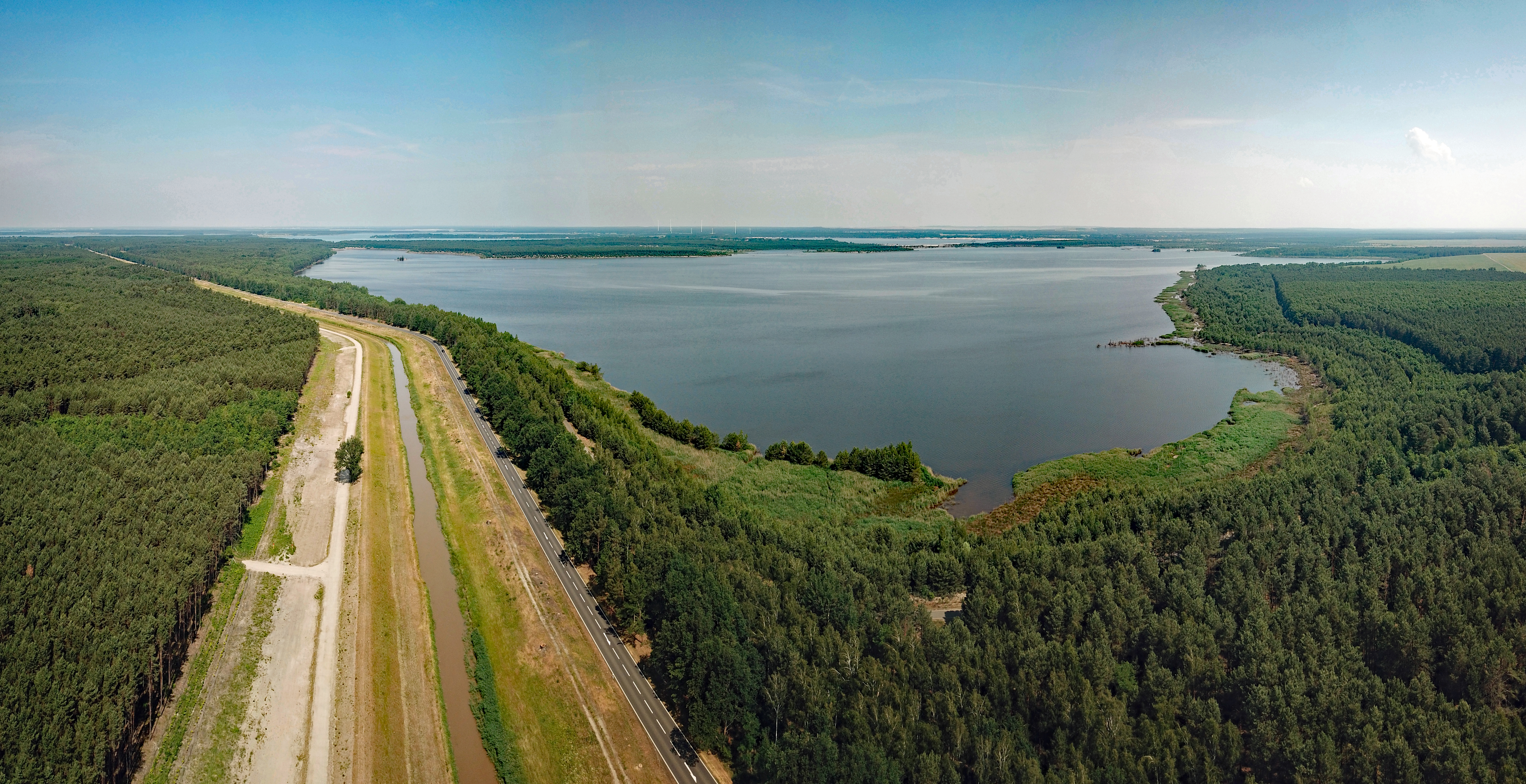 Neuwieser See (Elsterheide, Saxony, Germany) Hornjoserbsce: Powětrowy wobraz Nowołučanskeho jězora z kanalizowanym Čornym Halštrowom.